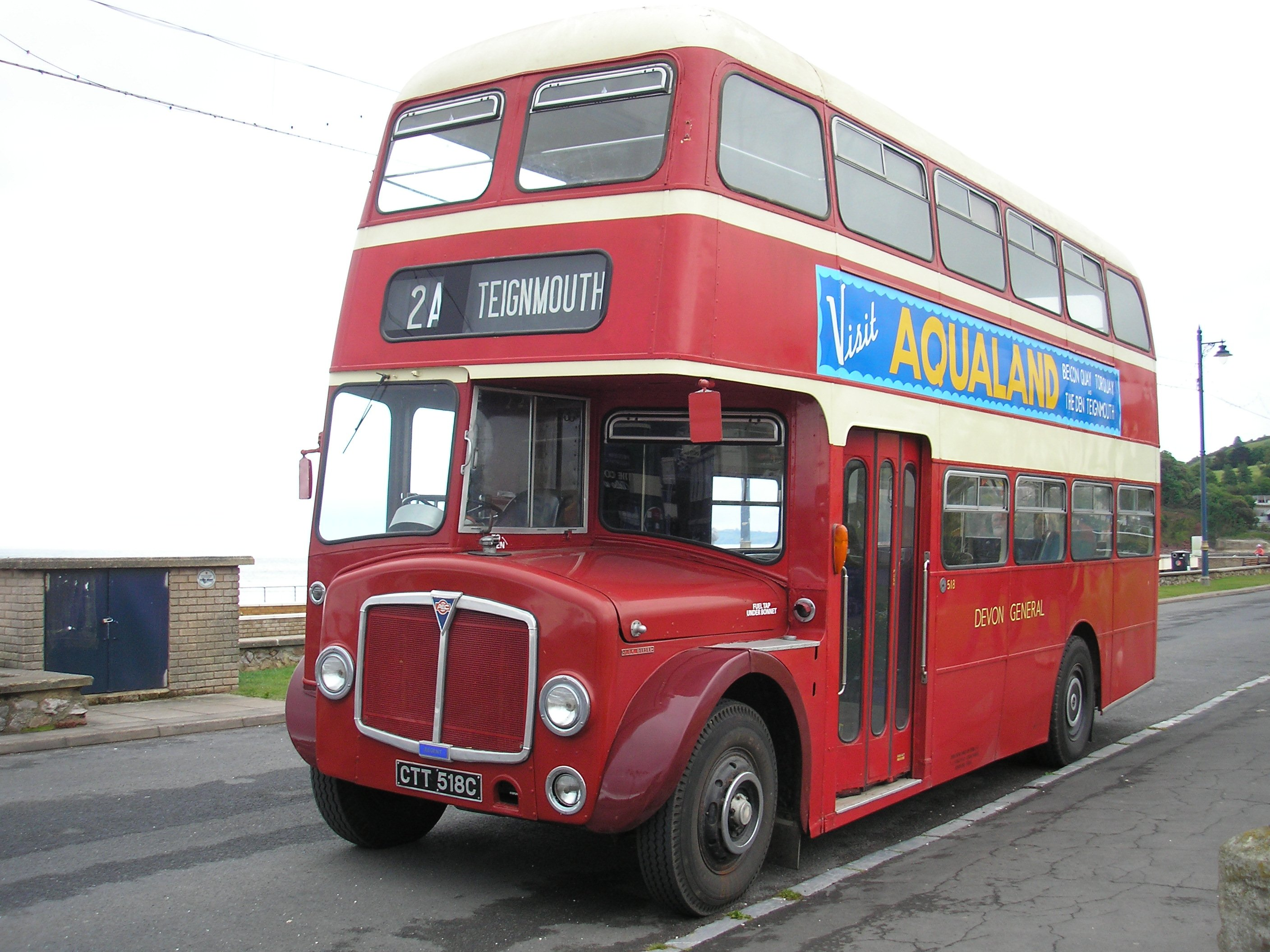 Vintage buses gather in Teignmouth for a meet up on a dreadful day for weather. 31 May 2015. Devon General AEC fleet No. 518 Reg. No. CTT 518C. Camera: Olympus FE-120 digital compact.